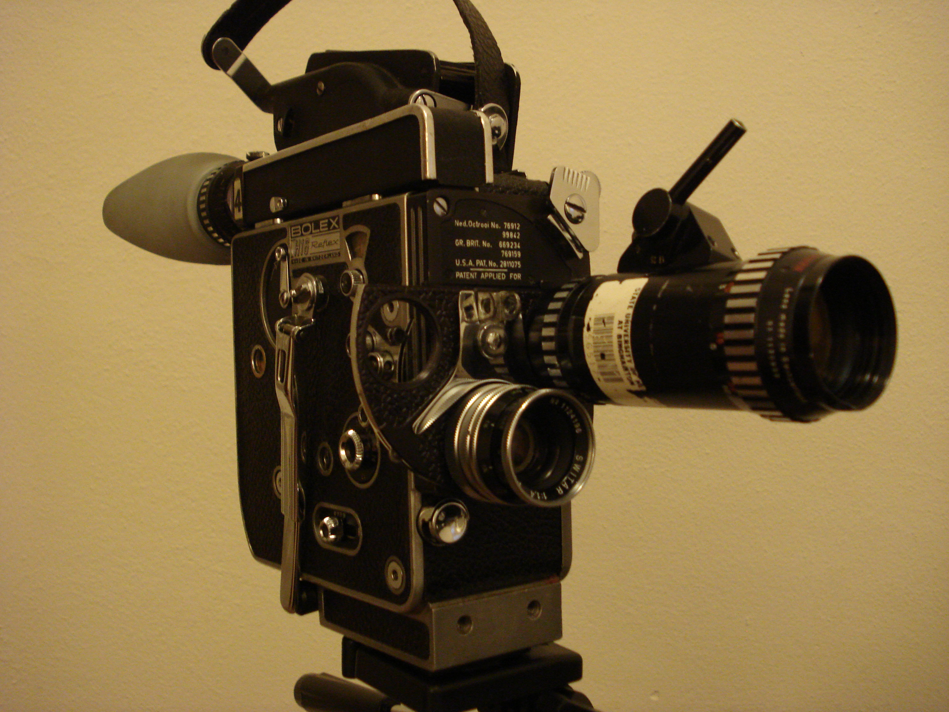 Bolex H16 camera for 16mm filming.